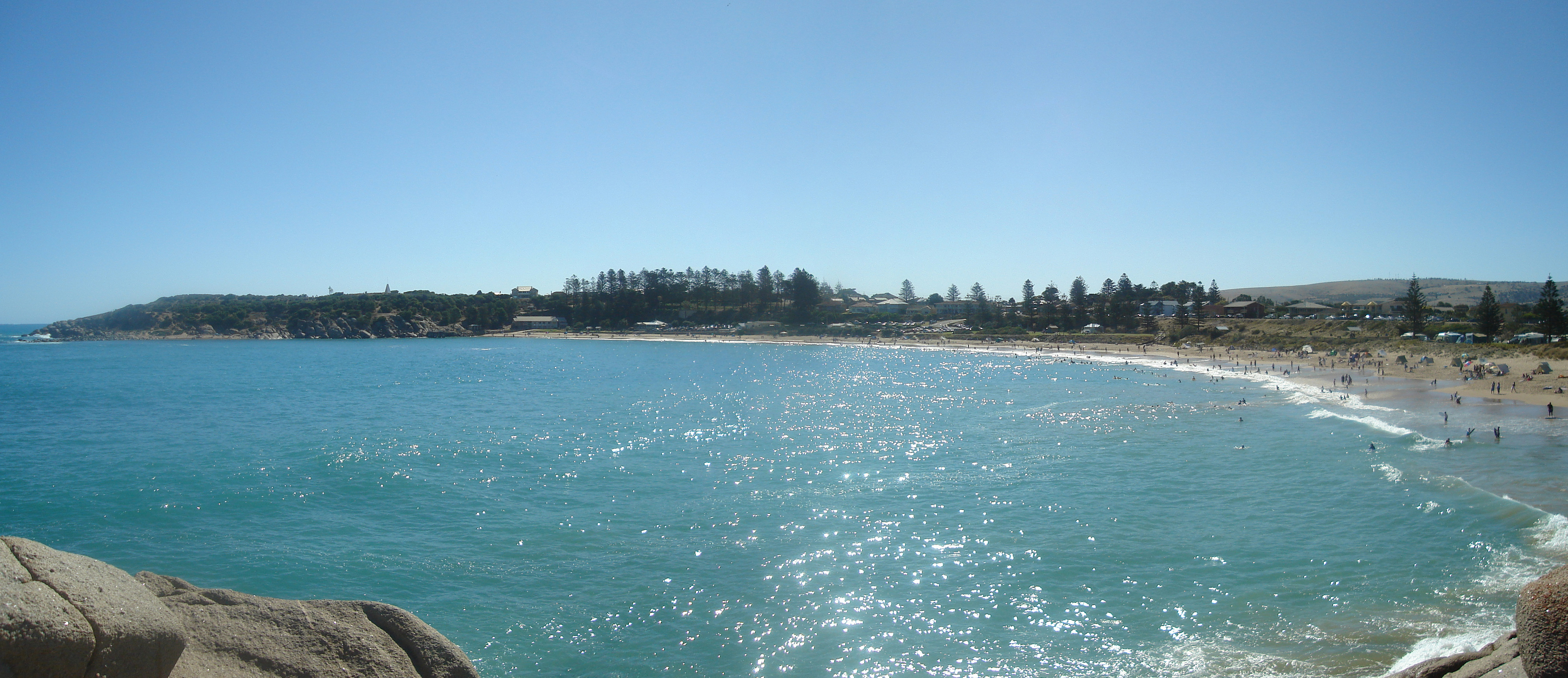 Horseshoe Bay in Port Elliot, South Australia. Horseshoe Bay is a popular tourist attraction for bodyboarding in the summer and whale watching in the winter. The "Ladies Beach" is to the left of the main beach.